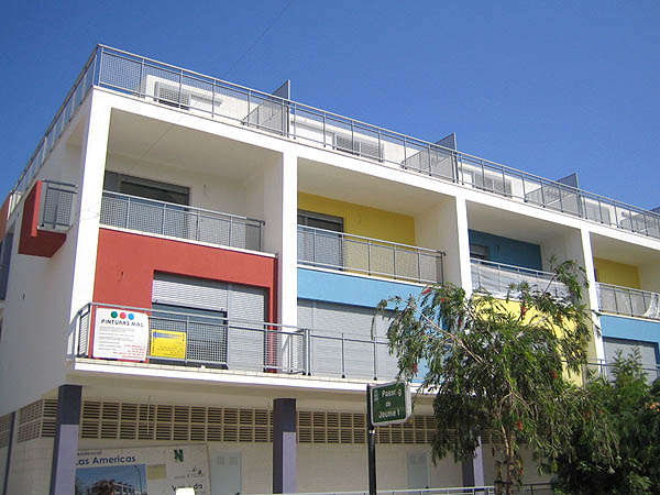 Block of flats, Beniarbeig, Marina Alta, Region of Valencia, Spain